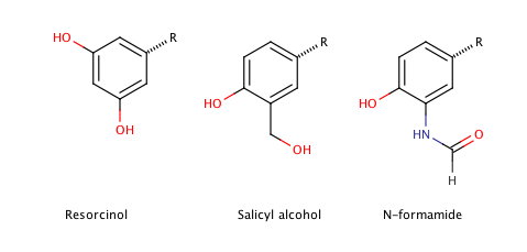 jjksc